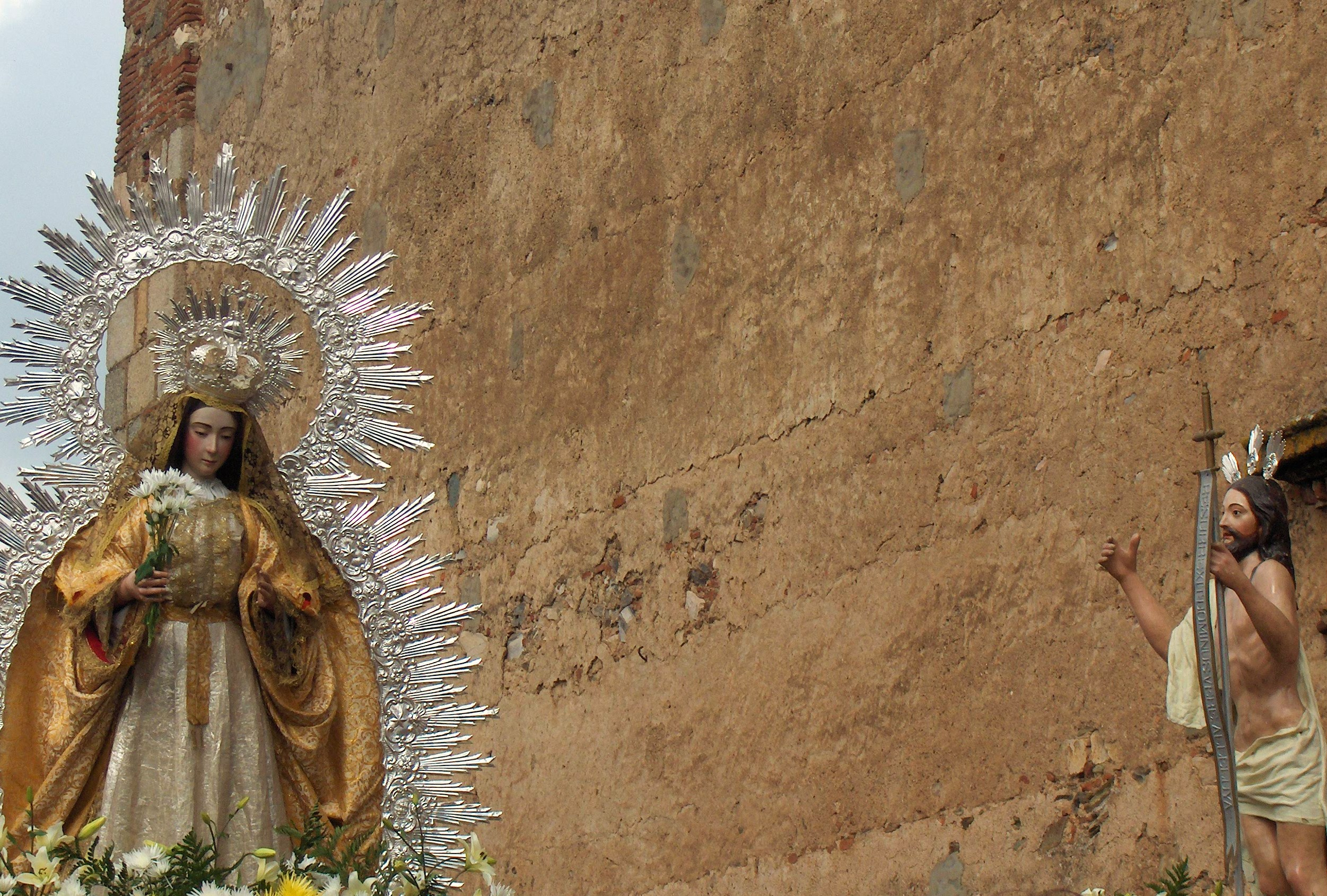 resucitao